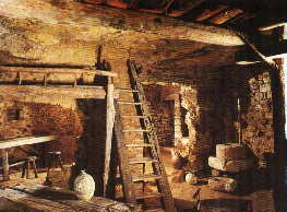 The cave dwellings of Belvès in Black Perigord